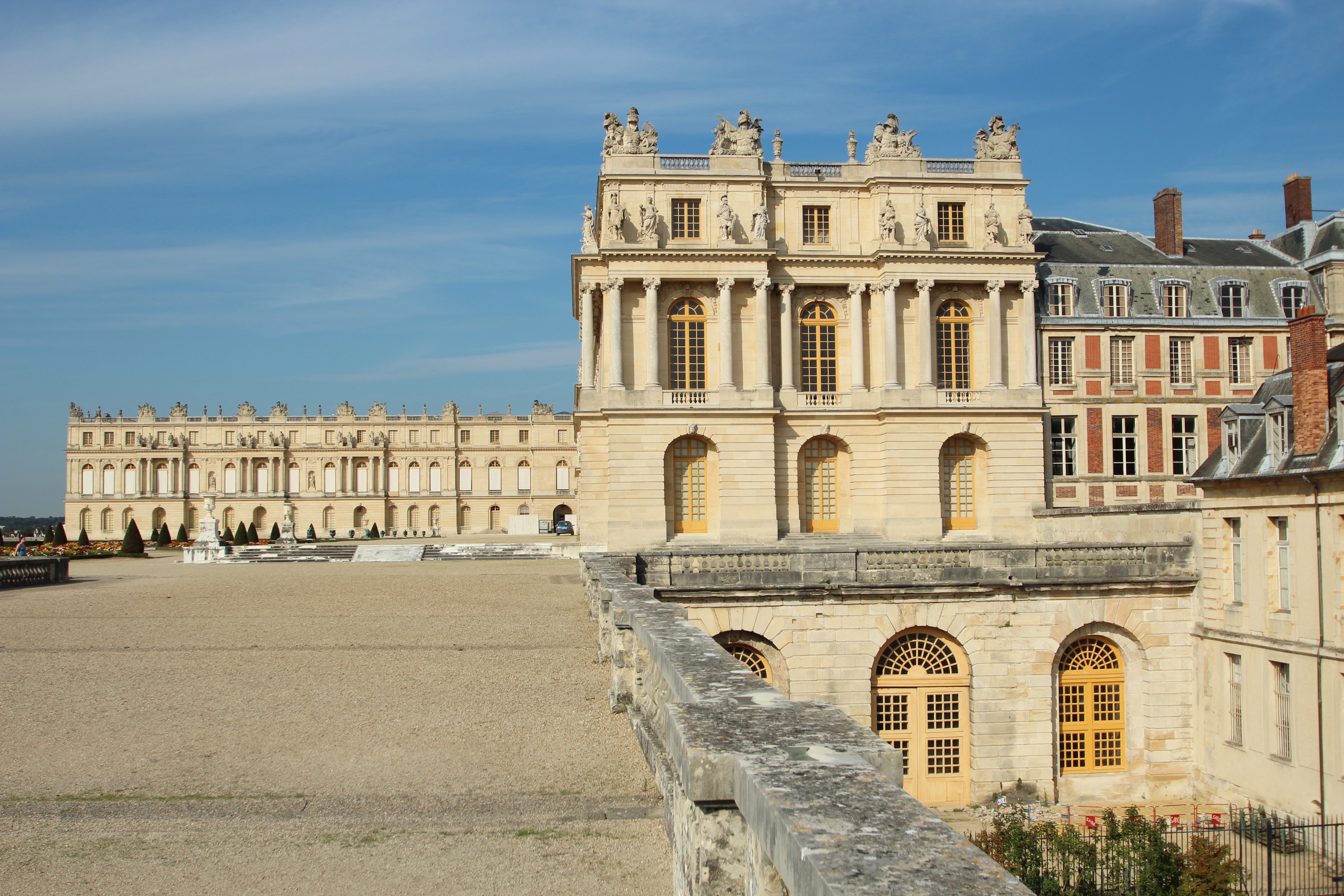 Aile du Midi (South Wing) in the Palace of Versailles, France. Object location48° 48′ 10.19″ N, 2° 07′ 13.55″ E .